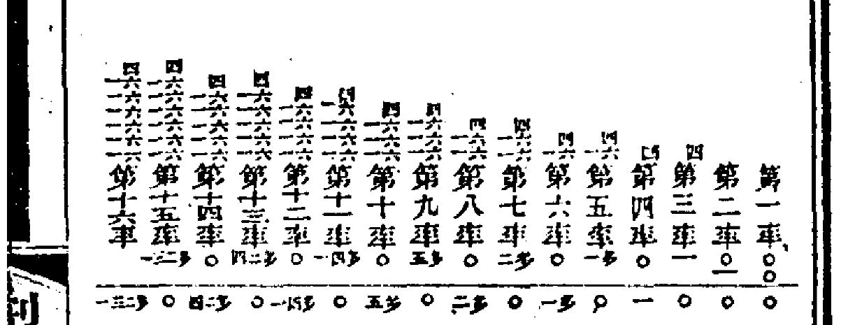 Ming Antu-Catalan number